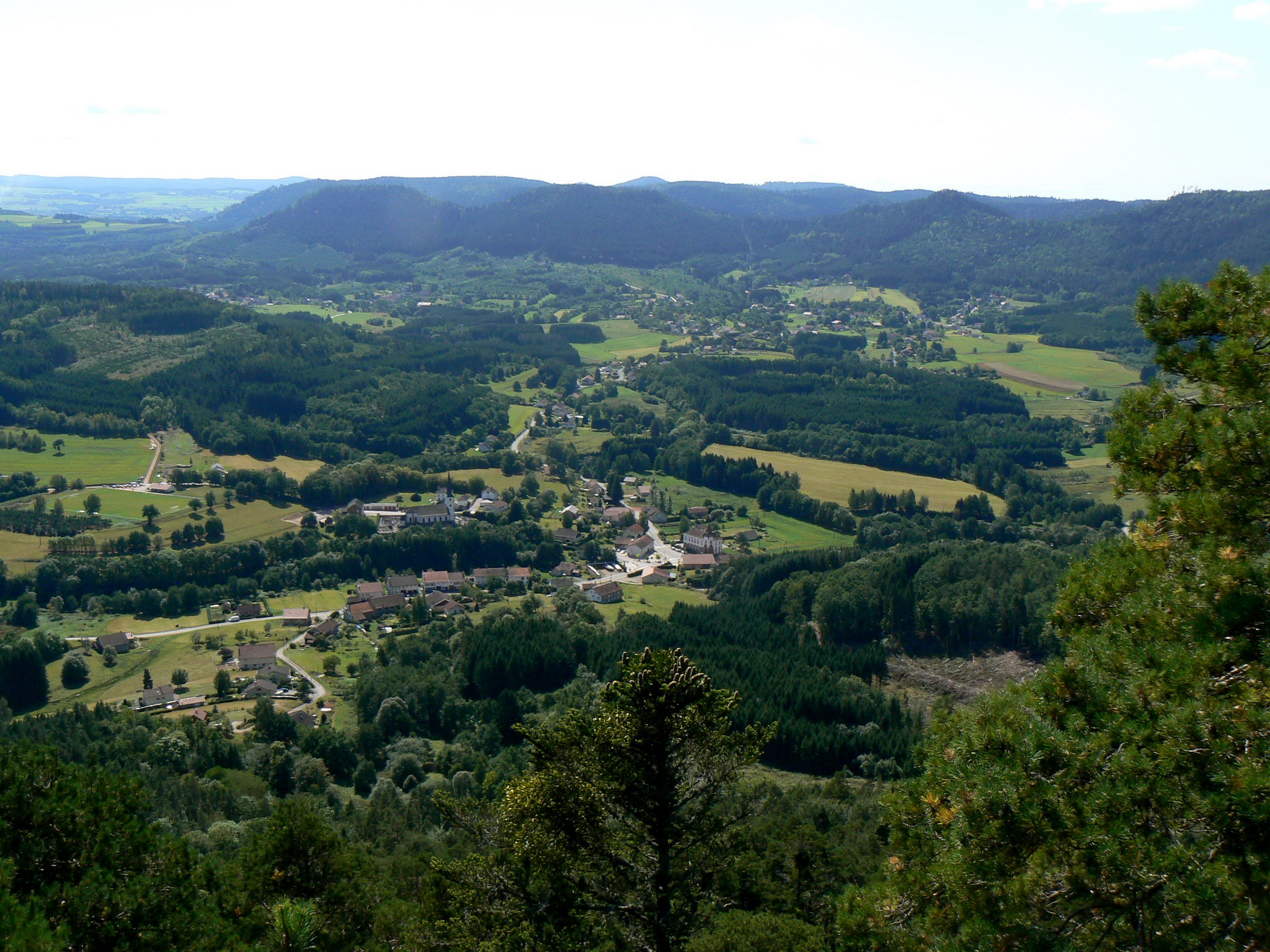 Panorama on Taintrux (Vosges, France) from Pierre de Laitre